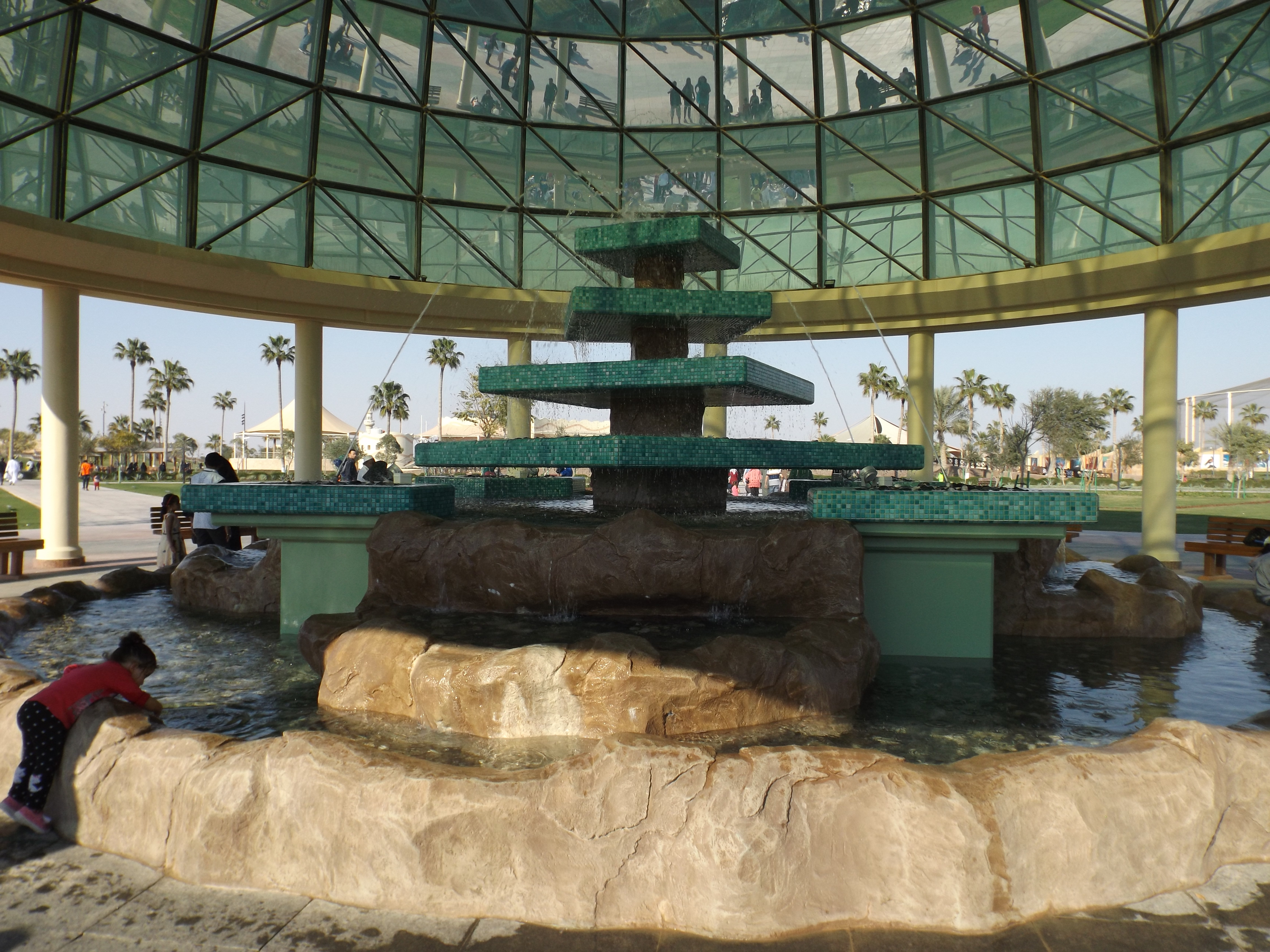 Fountain Plaza at Al Khor Park